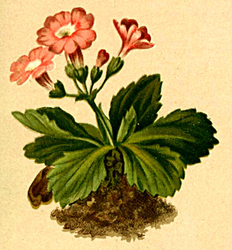 Primula daonensis (formerly known as Primula oenensis)